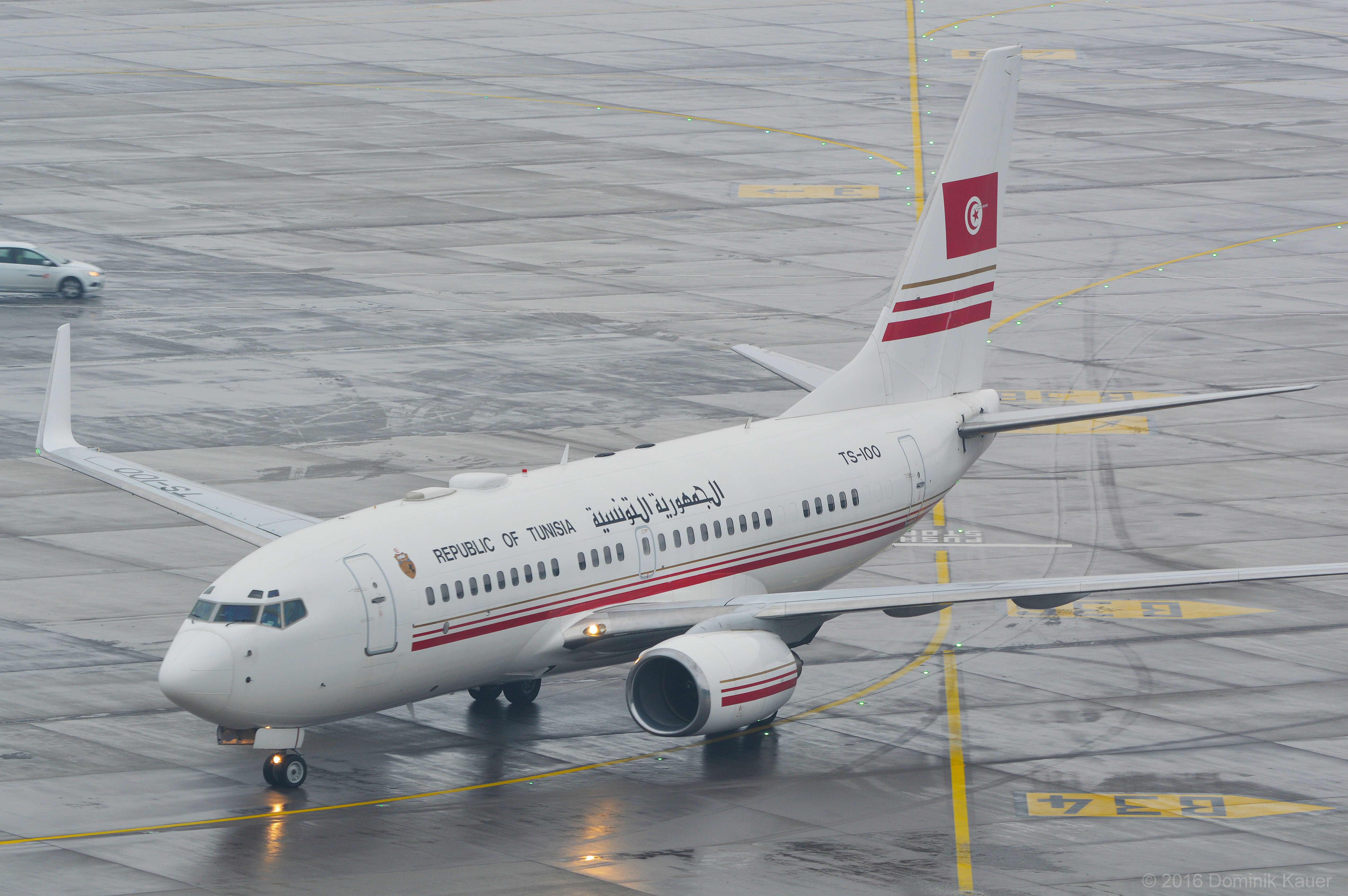 Republic of Tunisia Boeing 737-7H3(BBJ) taxiing to the stand during the WEF 2016.